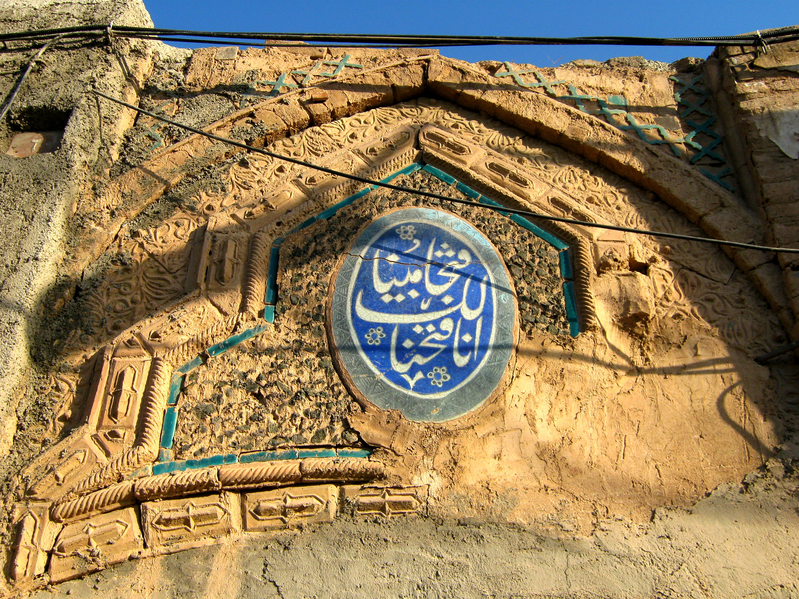 Portal of old house - nishapur gold bazaar - ayah of Quran - tile 1